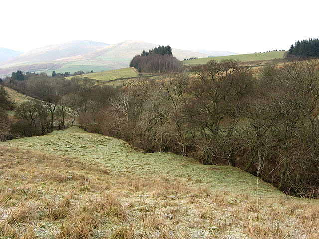 Farmland to the east of Arkleton, Dumfries and Galloway